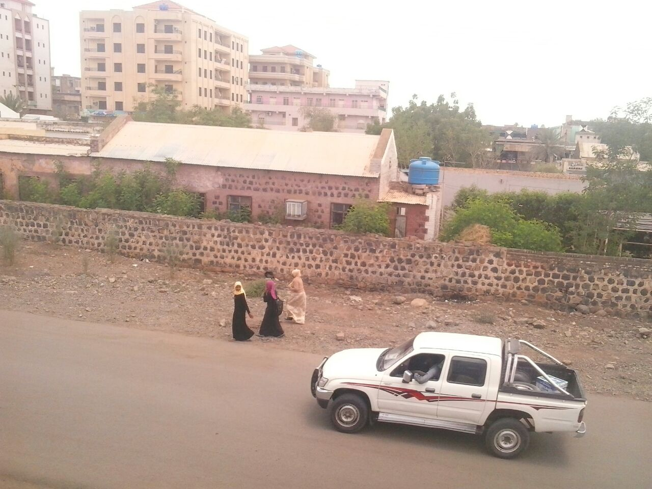 buildings in Gedarif